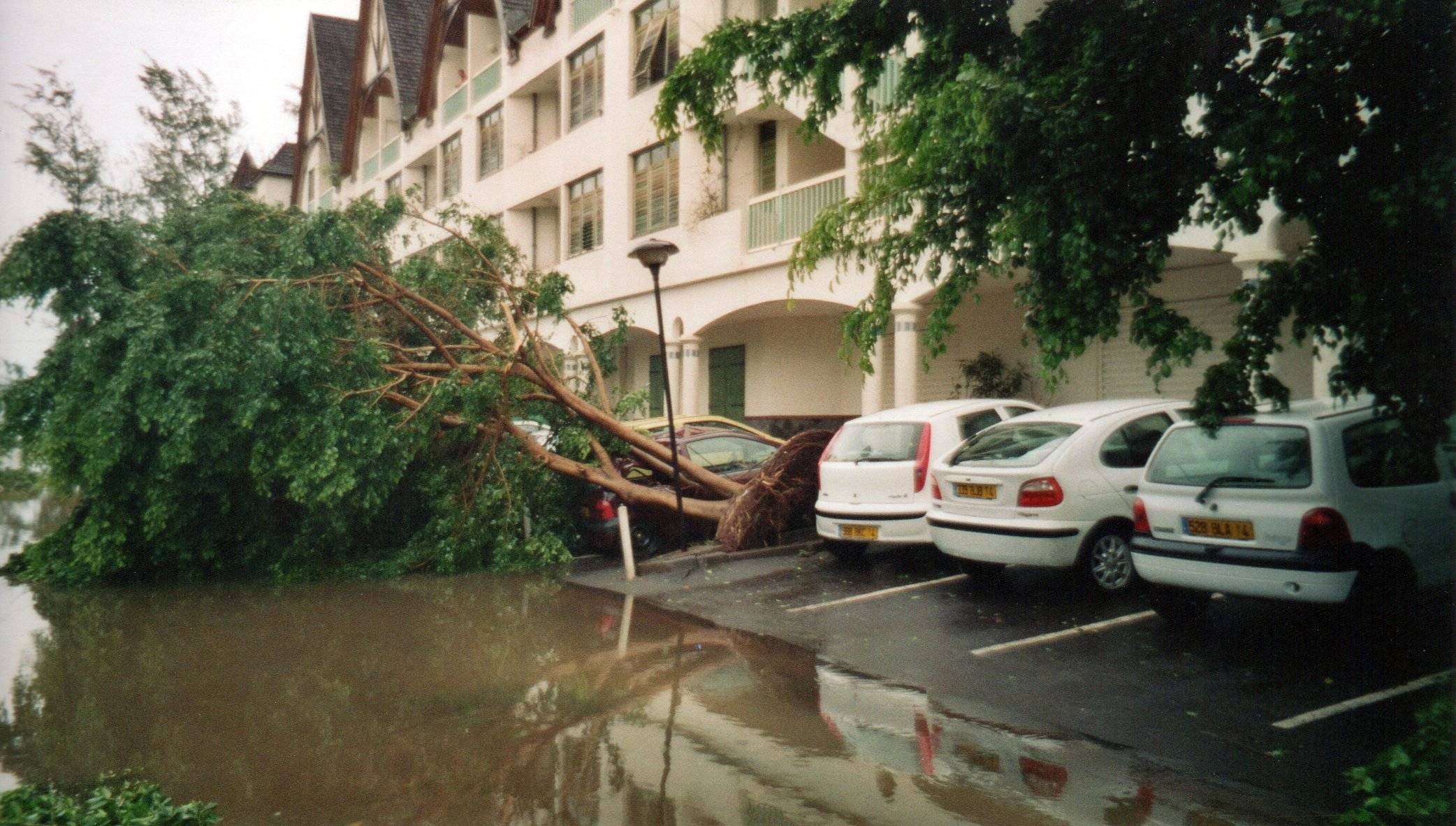 A downed tree and street flooding from Cyclone Dina in Saint-Leu, Reunion after Cyclone Dina in 2002